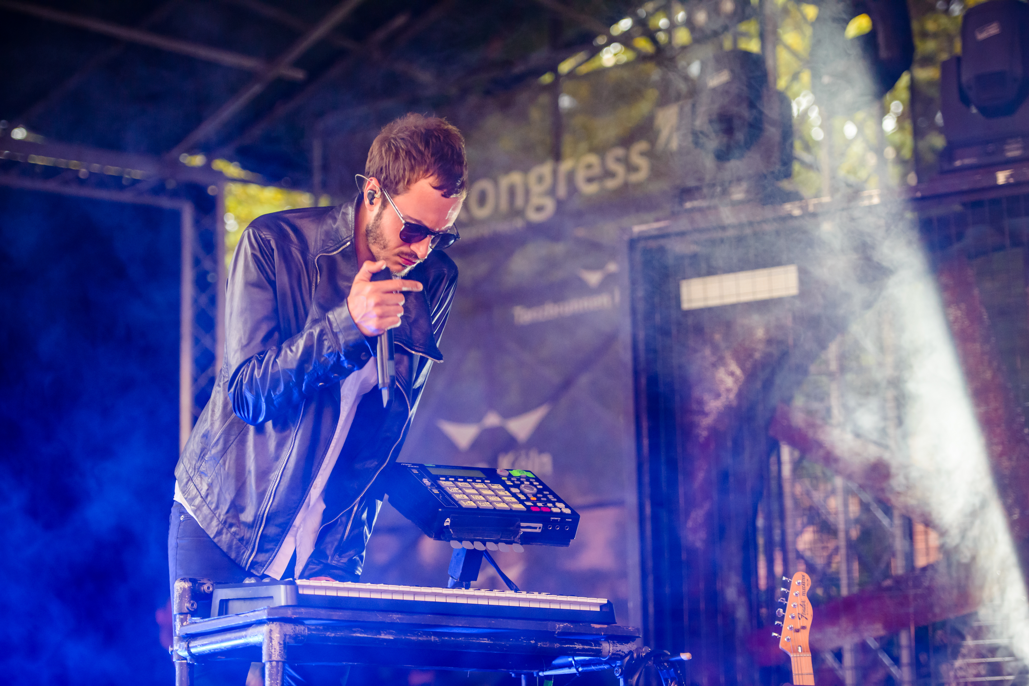 Editors; Amphi festival 2016